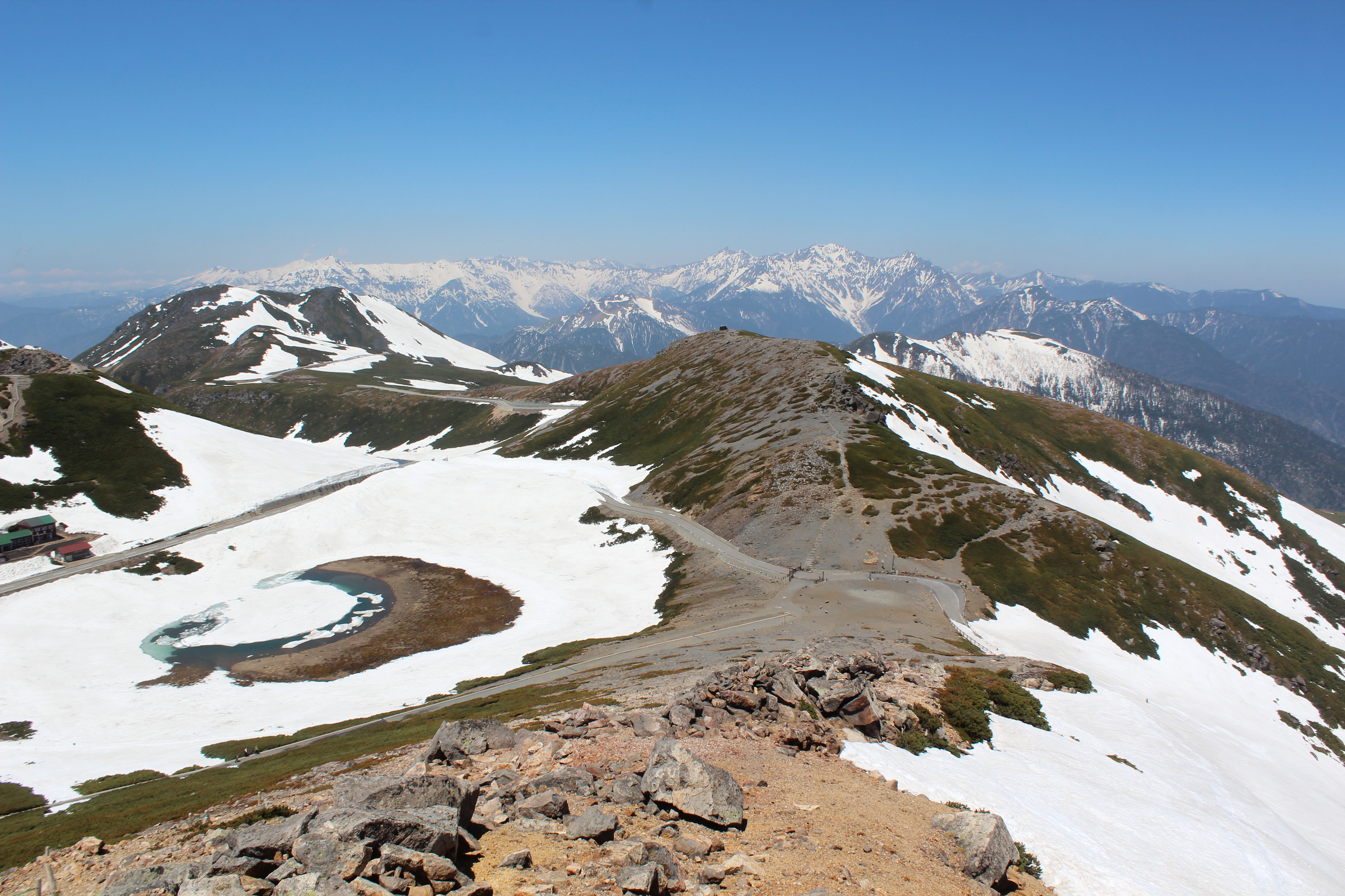 Hida Mountains and Norikura Echoline from Mount Fujimi of Mount Norikura